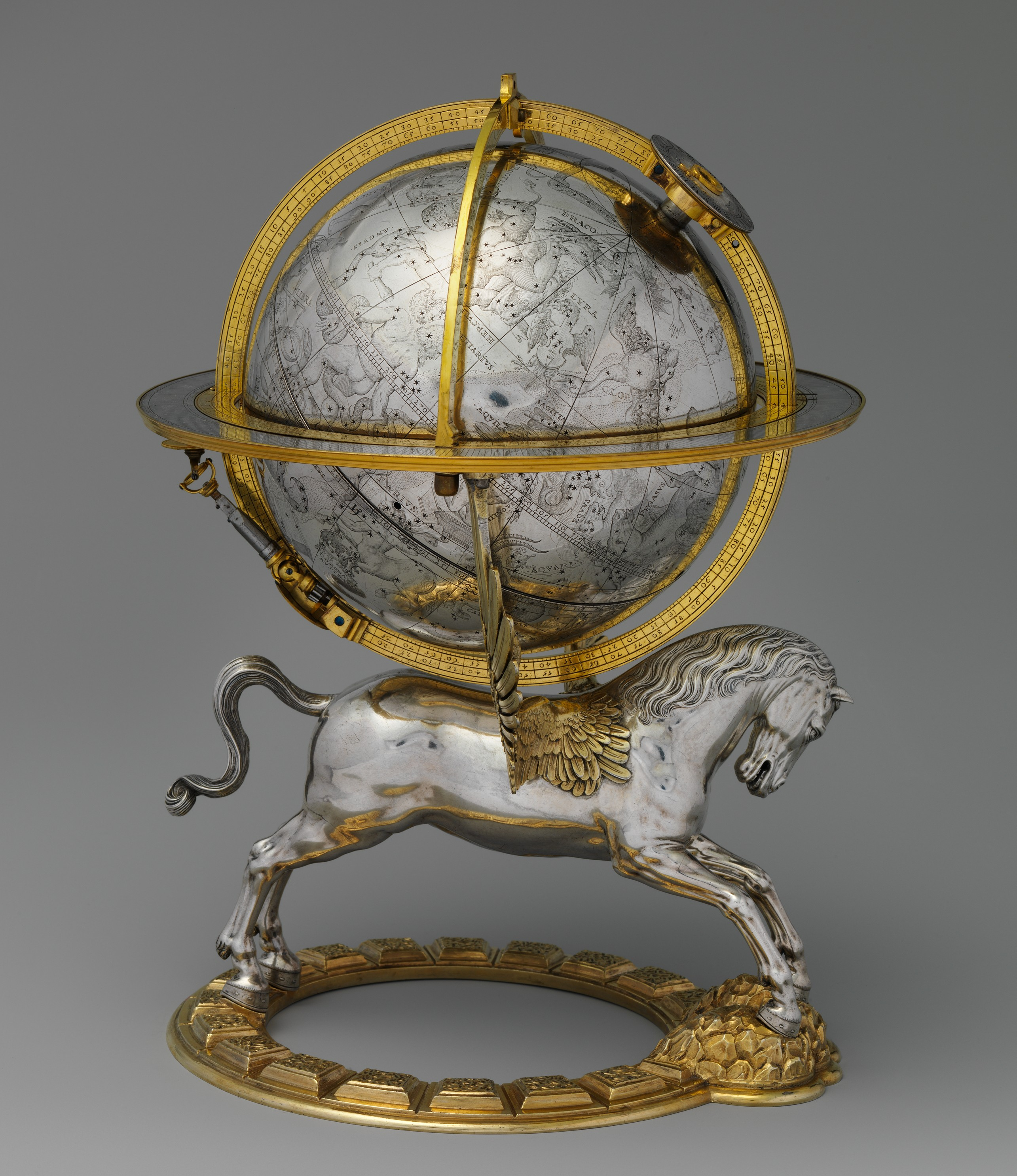 Austrian, Vienna; Celestial globe with clockwork; Metalwork-Silver In Combination